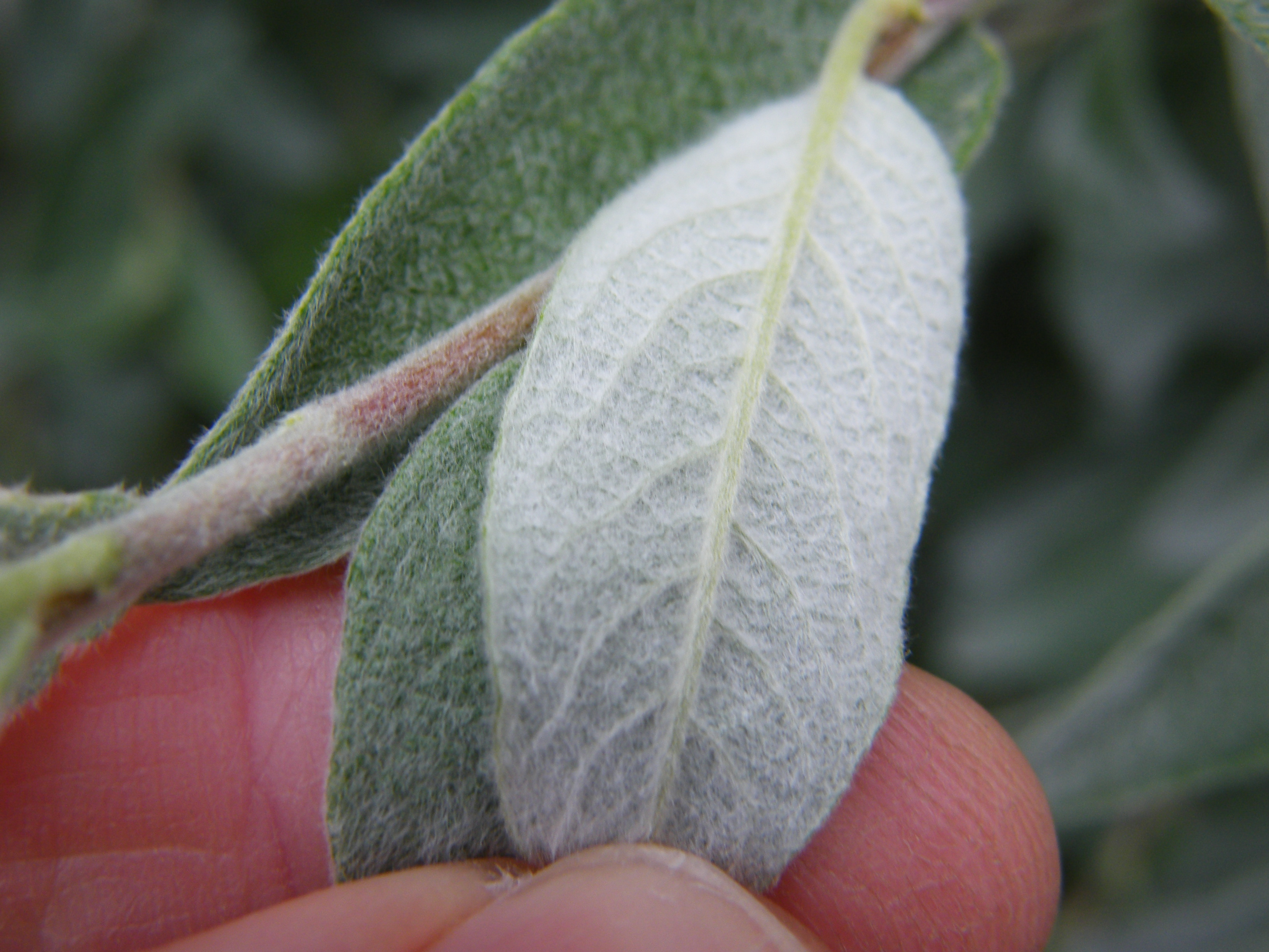 Salix lapponum: under side of leaf.